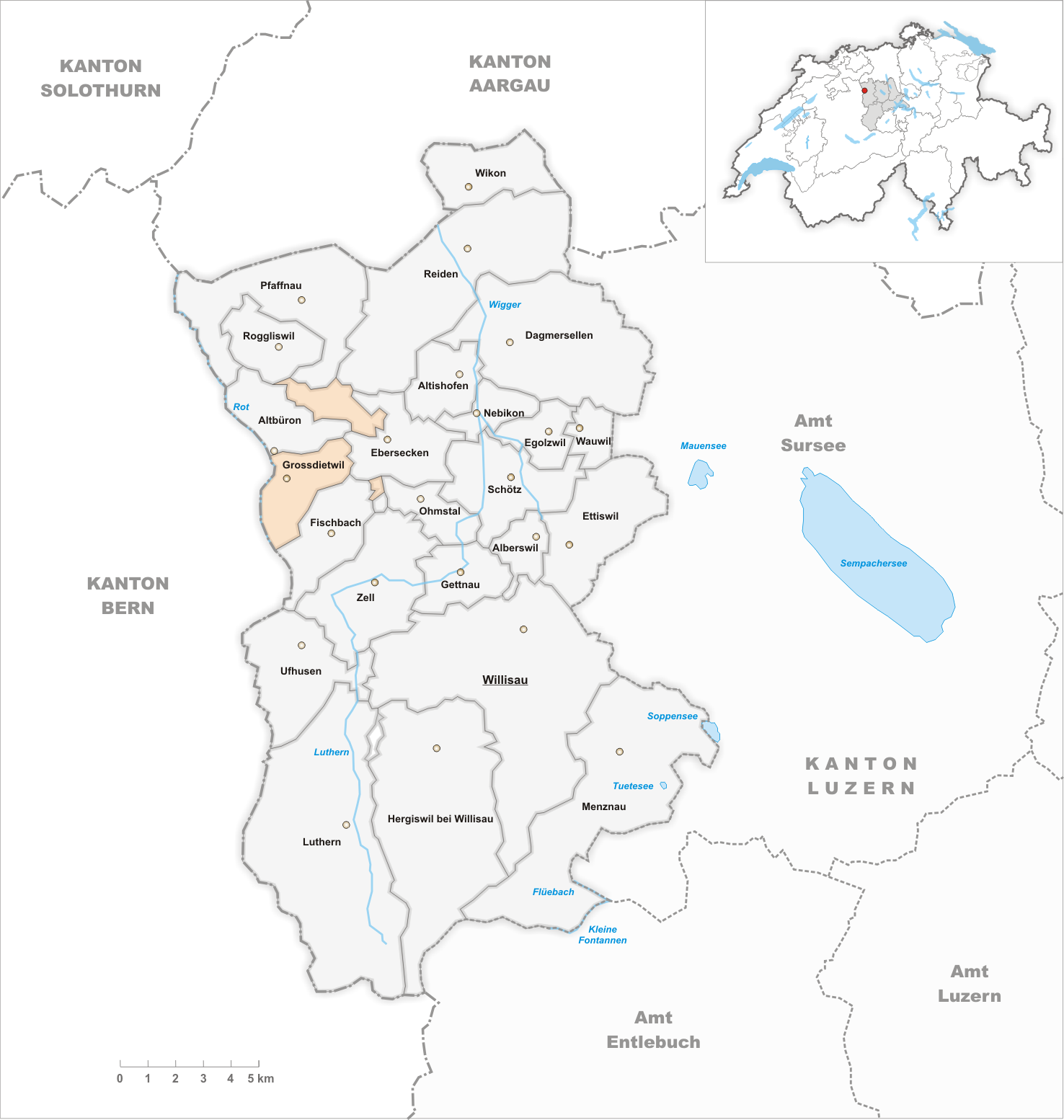 Municipality Grossdietwil